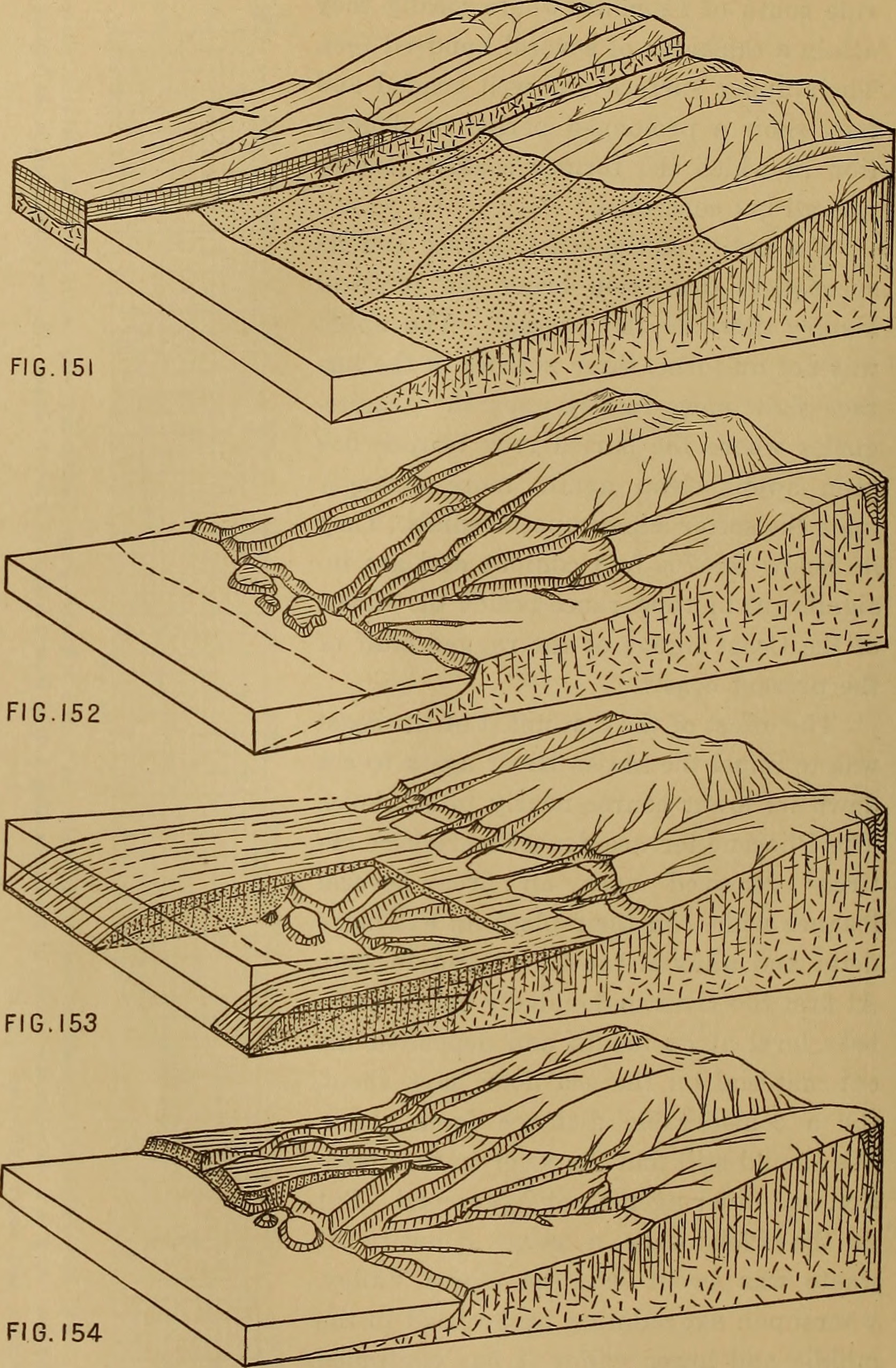 Title: The Andes of southern Peru; geographical reconnaissance along the seventy-third meridian Year: 1916 (1910s) Authors: Bowman, Isaiah, 1878-1950; American Geographical Society of New York Subjects: Yale Peruvian Expedition (1911); Physical geography; Geology Publisher: New York, Published for the Americsn Geographical Society of New York by H. Holt Text Appearing Before Image: 228 THE ANDES OF SOUTHERN PERU Text Appearing After Image: Figs. 151-154—These four diagrams represent the physical history and the corre- sponding physiographic development of the coastal region of Peru between Camana and Mollendo. The sedimentary beds in the background of the first diagram are hypo- thetical and are supposed to correspond to the quartzites of the Majes Valley at Aplao.